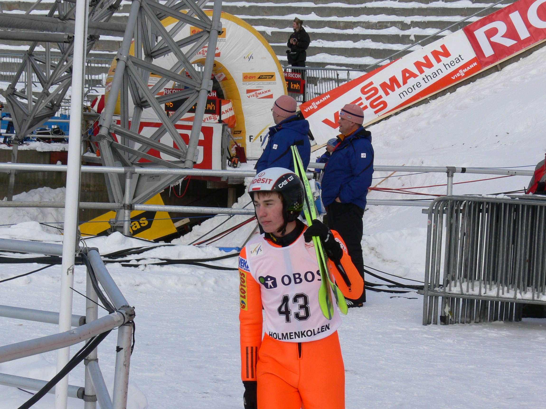 From the 2006 World Cup ski jumping event in Holmenkollen.